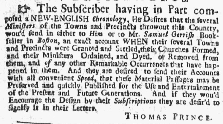 Newspaper item related to Thomas Prince and Samuel Gerrish, bookseller, Boston, Massachusetts